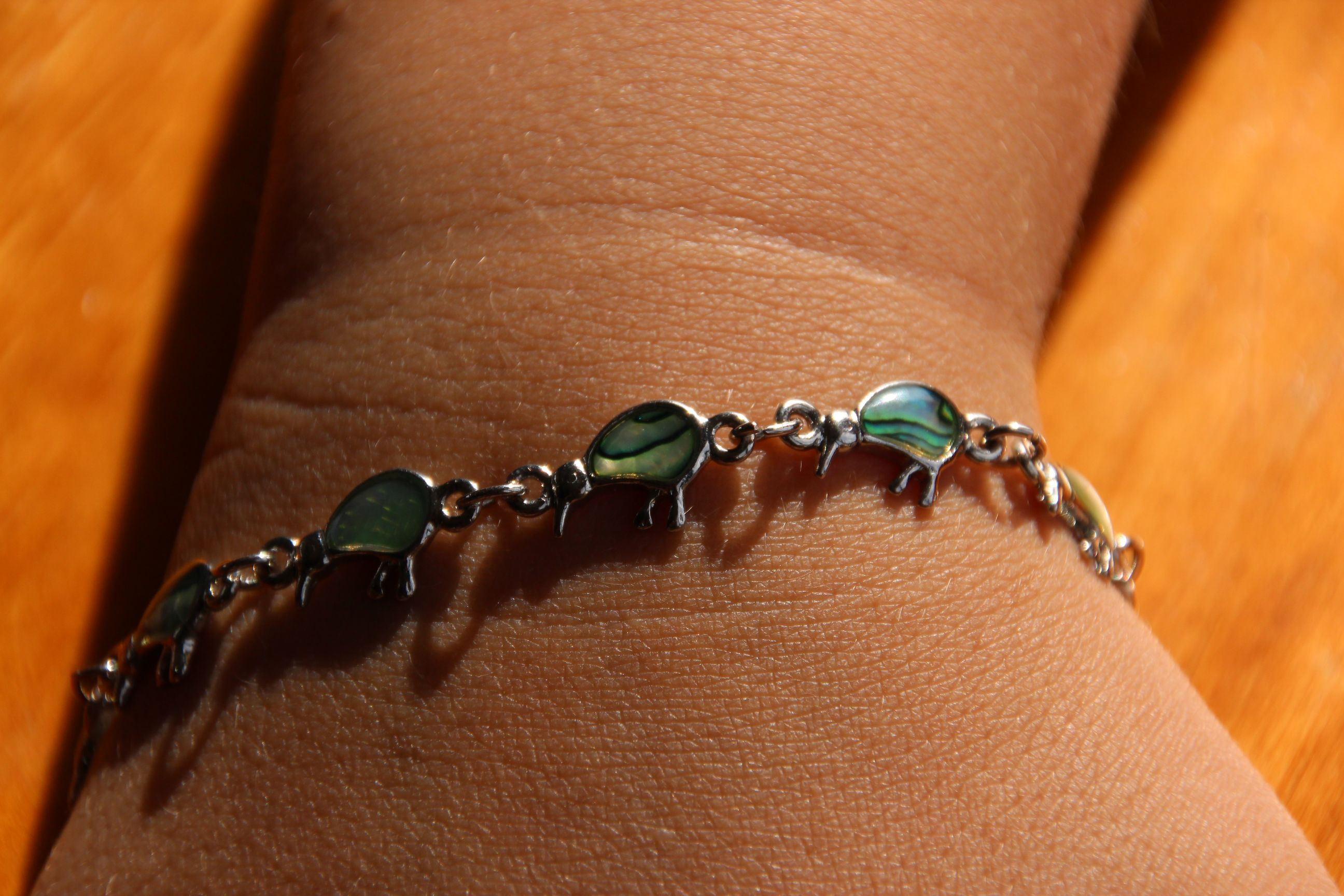 A tourist visiting the North Island of New Zealand wearing a bracelet on her wrist. The bracelet design features a row of kiwis decorated with paua shell.